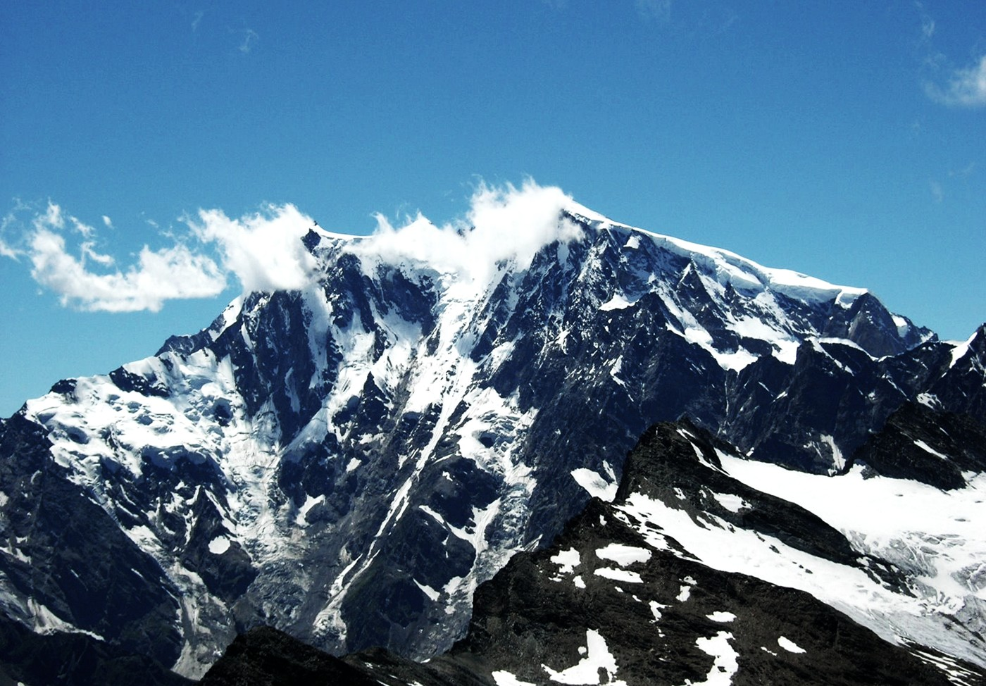 Dufourspitze, Valais